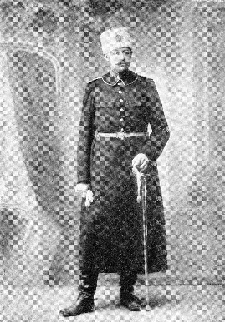 General Harald O. Hjalmarson in Persia, 1911.